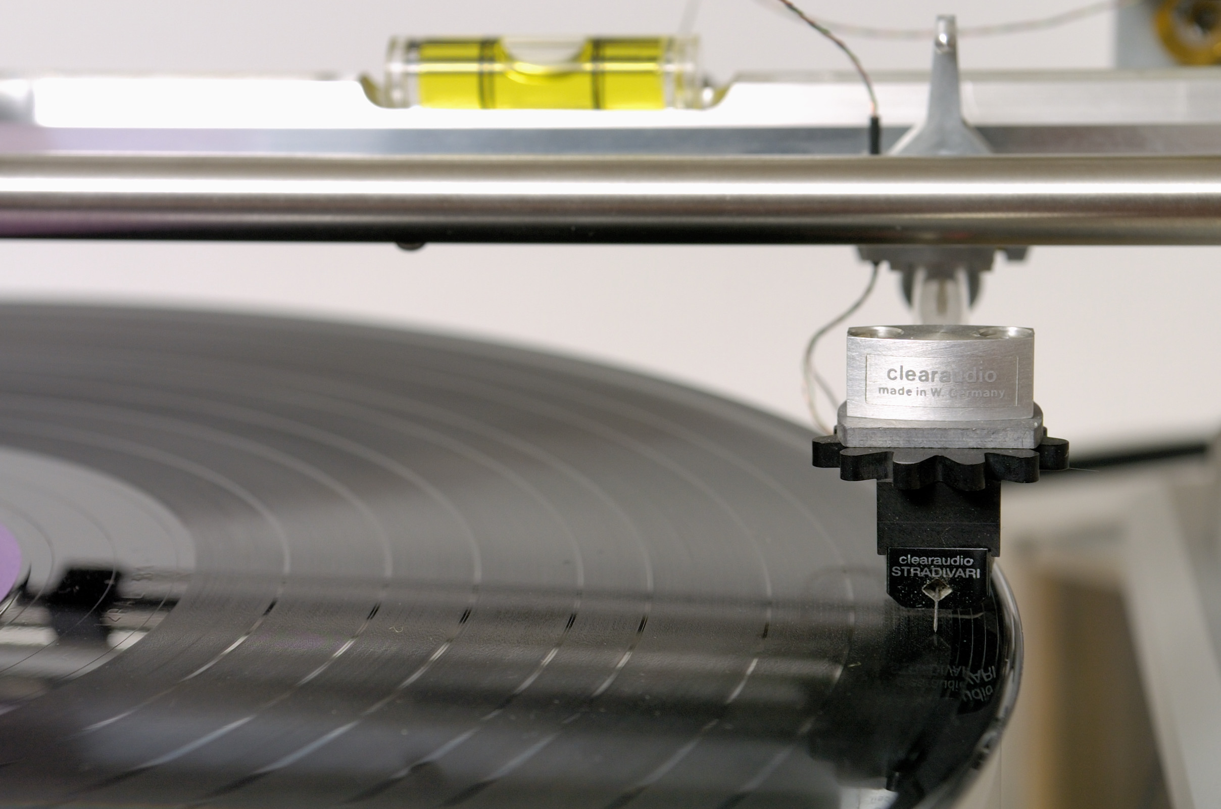 Leveling a Clearaudio Solution turntable